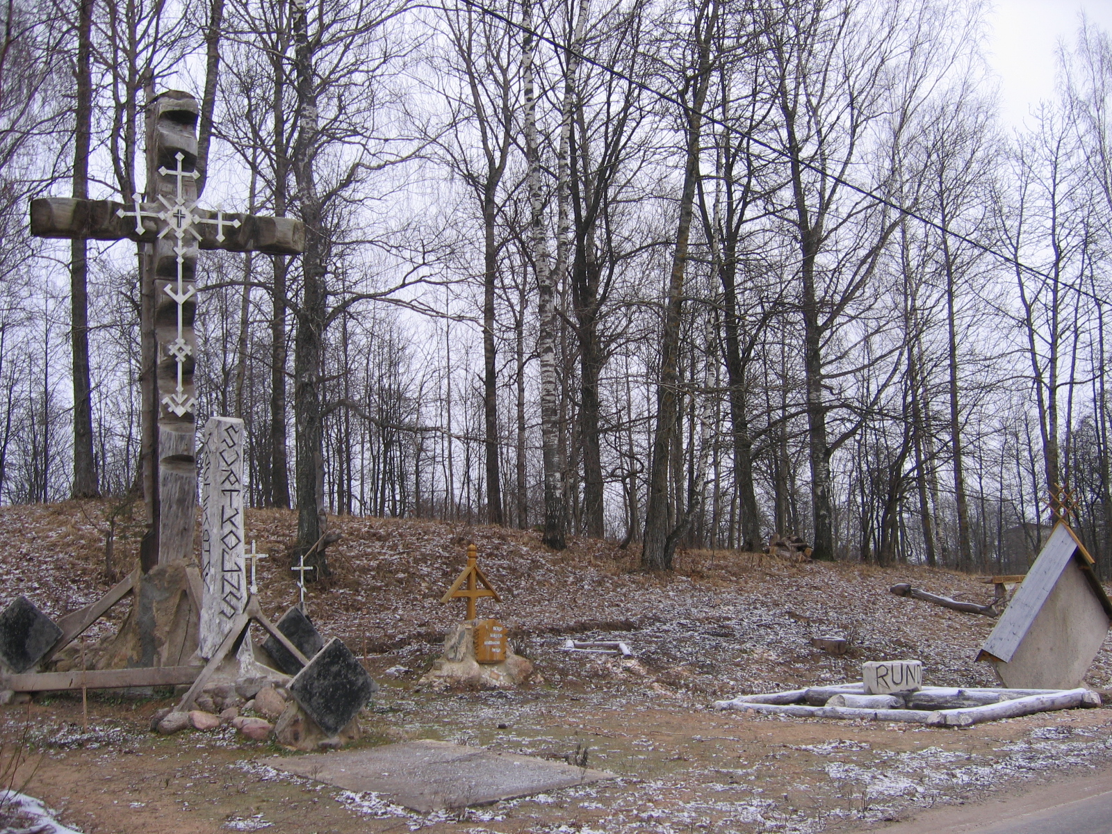 Hill of Crosses in Rundēni